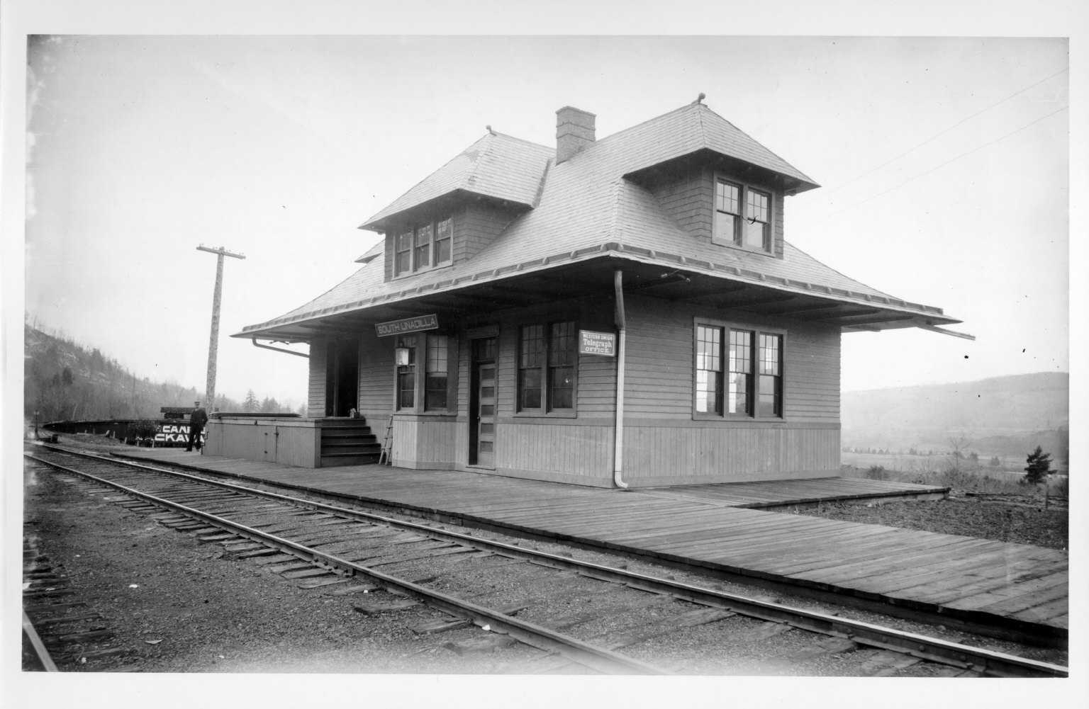 Collection: De Forest Douglas Diver Railroad Photographs, ca. 1870 - 1948, Cornell University Library Title: Railroad Station, So. Unadilla Place: New York (State) Medium: Gelatin silver print Notes: Railroad: O&W Provenance: Diver, De Forest Douglas, 1878-1958, Collector Finding Aid: Location: 1948/Box 3/Folder 59/1 RMC ID: RMC2004_1059 Persistent URI: There are no known U.S. copyright restrictions on this image. The digital file is owned by the Cornell University Library which is making it freely available with the request that, when possible, the Library be credited as its source. We had some help with the geocoding from Web Services by Yahoo!